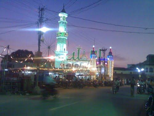 Road view